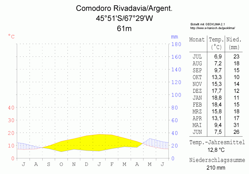 climate chart in the format by Walther and Lieth